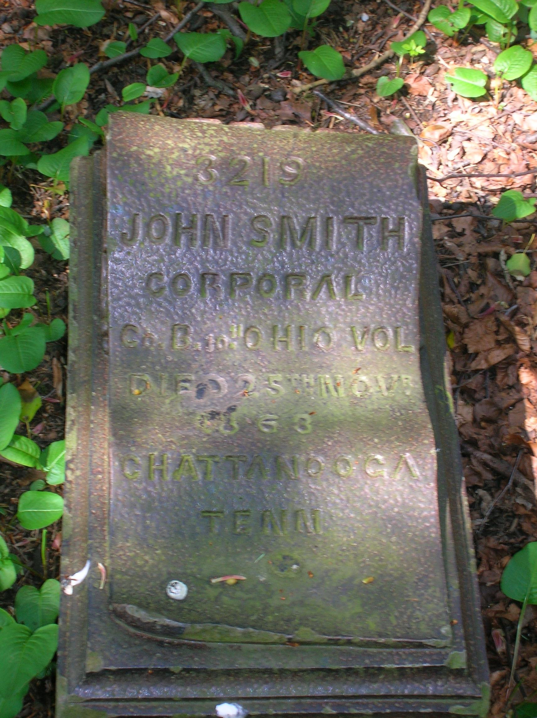 A memorial 'stone' to Corporal John Smith at Montgreenan old castle, North Ayrshire, Scotland. 2007. Rosser 12:16, 27 April 2007 (UTC) He was an Ohio Volunteer and was killed in the American Civil War at Chattanooga, Tennessee, however nothing is known of the reasons for his involvement or the origins of this very unusual memorial.